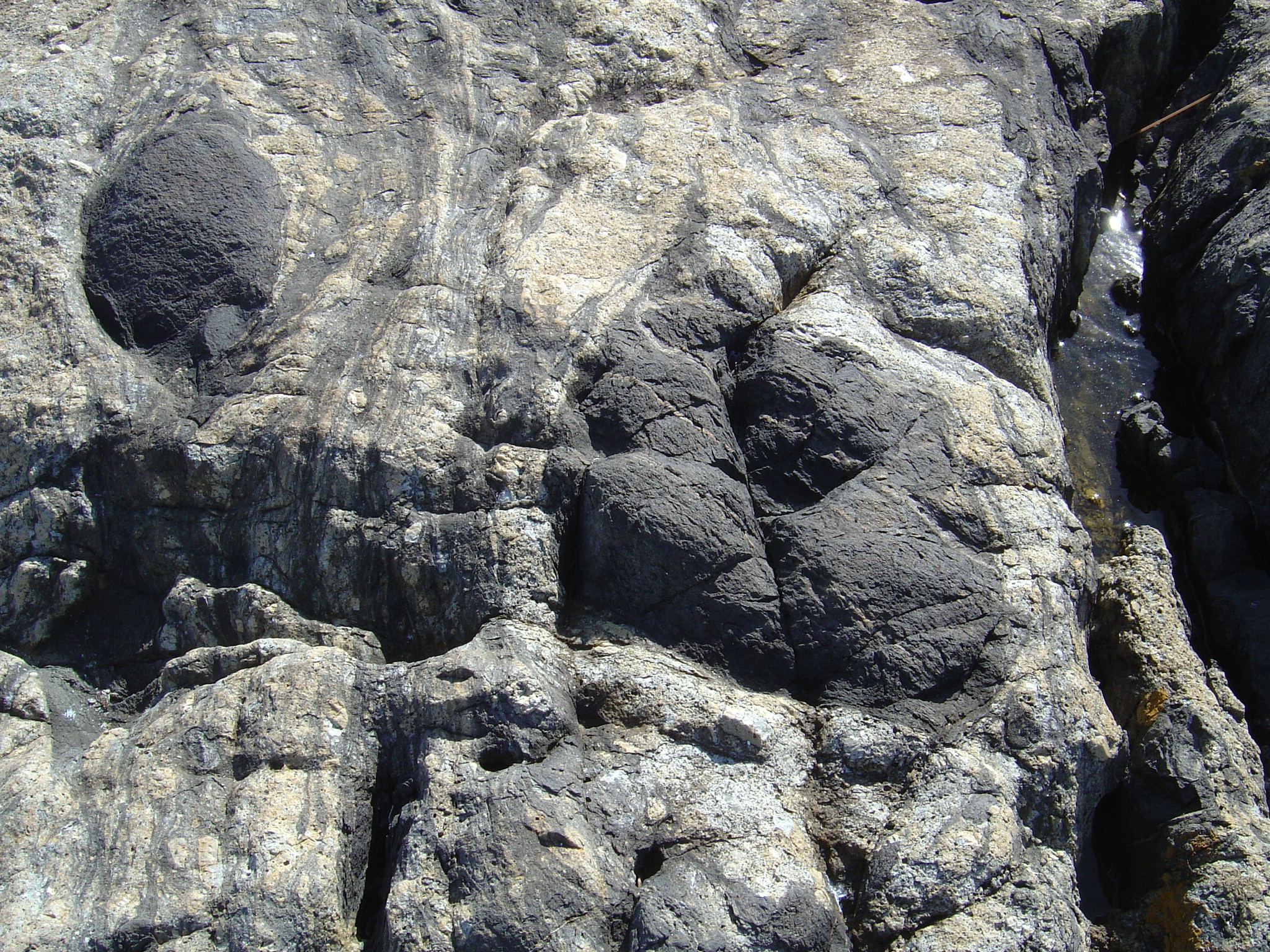 Contact zone between Peninsula pluton and Tygerberg series rock at Bantry Bay, Cape Town.